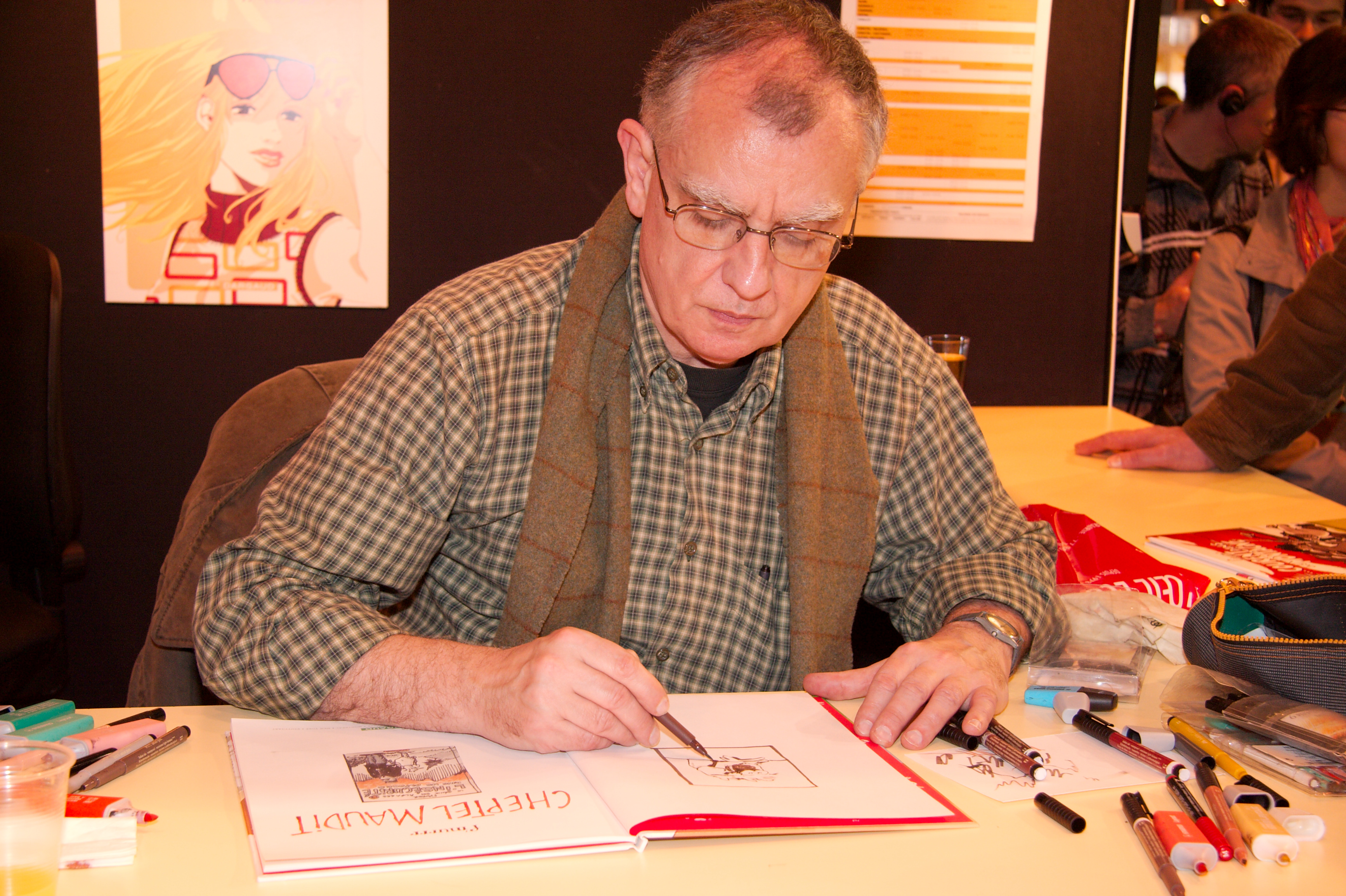 Autograph session with Richard Peyzaret (F'Murrr) at Salon du livre 2008 (Paris, France).